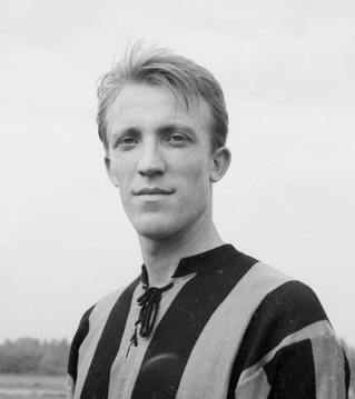 Carlo Tagnin with the jersey of the International Milan, 1963-64